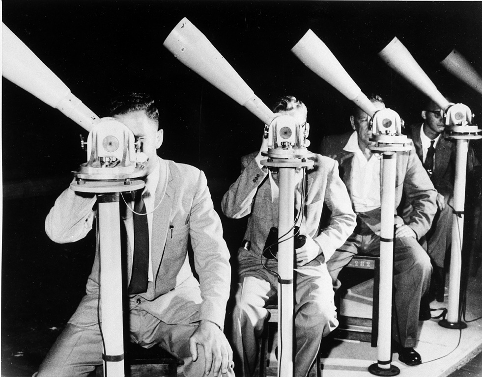 Volunteer satellite trackers in Pretoria, South Africa, for Smithsonian Astrophysical Observatory's Moonwatch Network, one of more than 100 teams worldwide. Volunteers used the "fence method" of observing the sky. Each observer covered a small, overlapping portion of a specific sky quadrant, and watches for the passage of the satellite in his telescope. The instrument used was the Moonwatch Apogee Scope, a 20 power telescope with a 5-inch objective lens. The Moonwatch teams backed up an optical network of 12 Baker-Nunn tracking cameras Full description